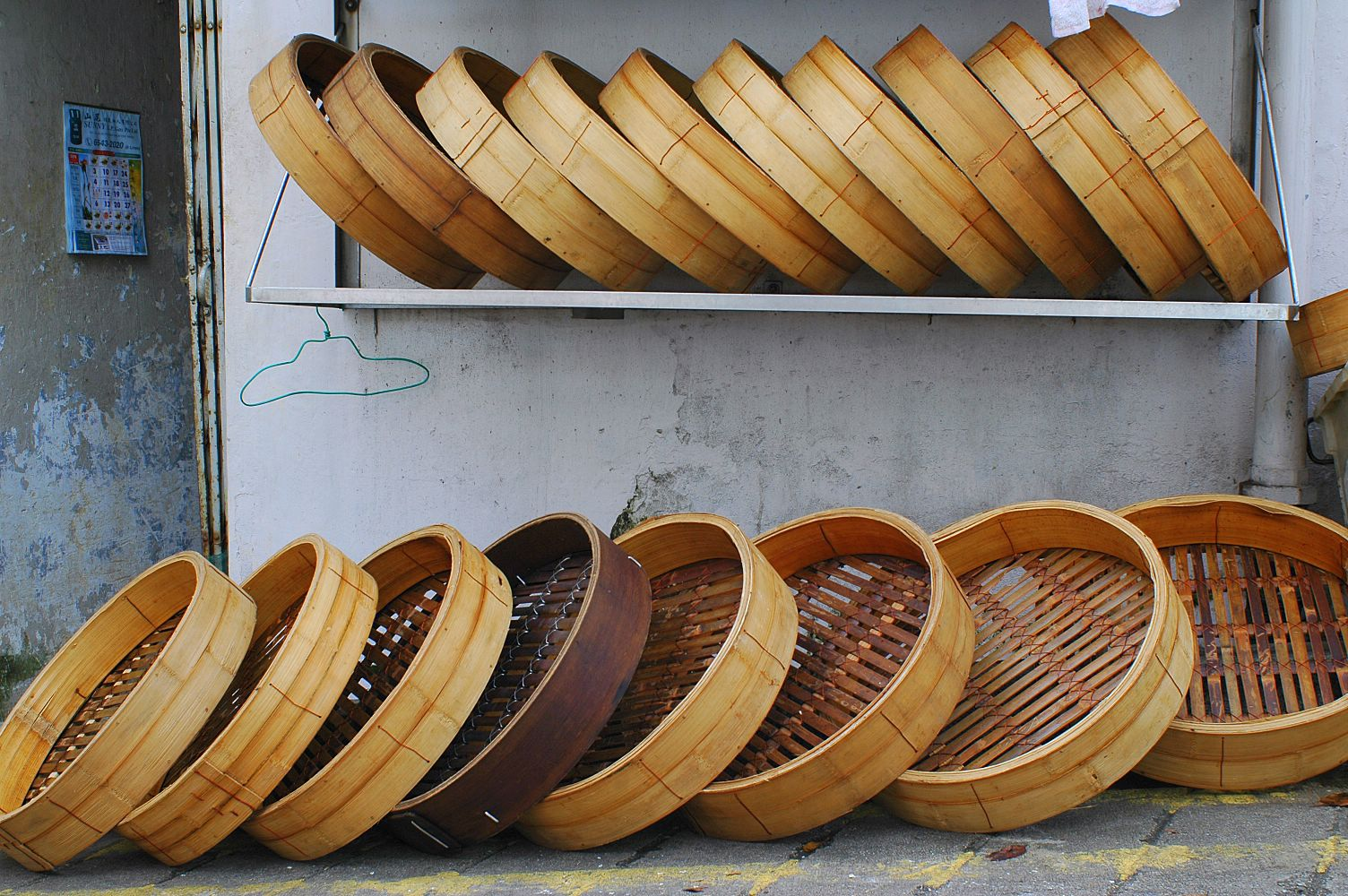 Bamboo steamers in Tiong Bahru, Singapore.